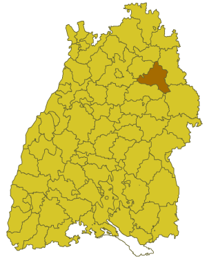 Map of Baden-Württemberg with the former county of Schwäbisch Hall before 1973